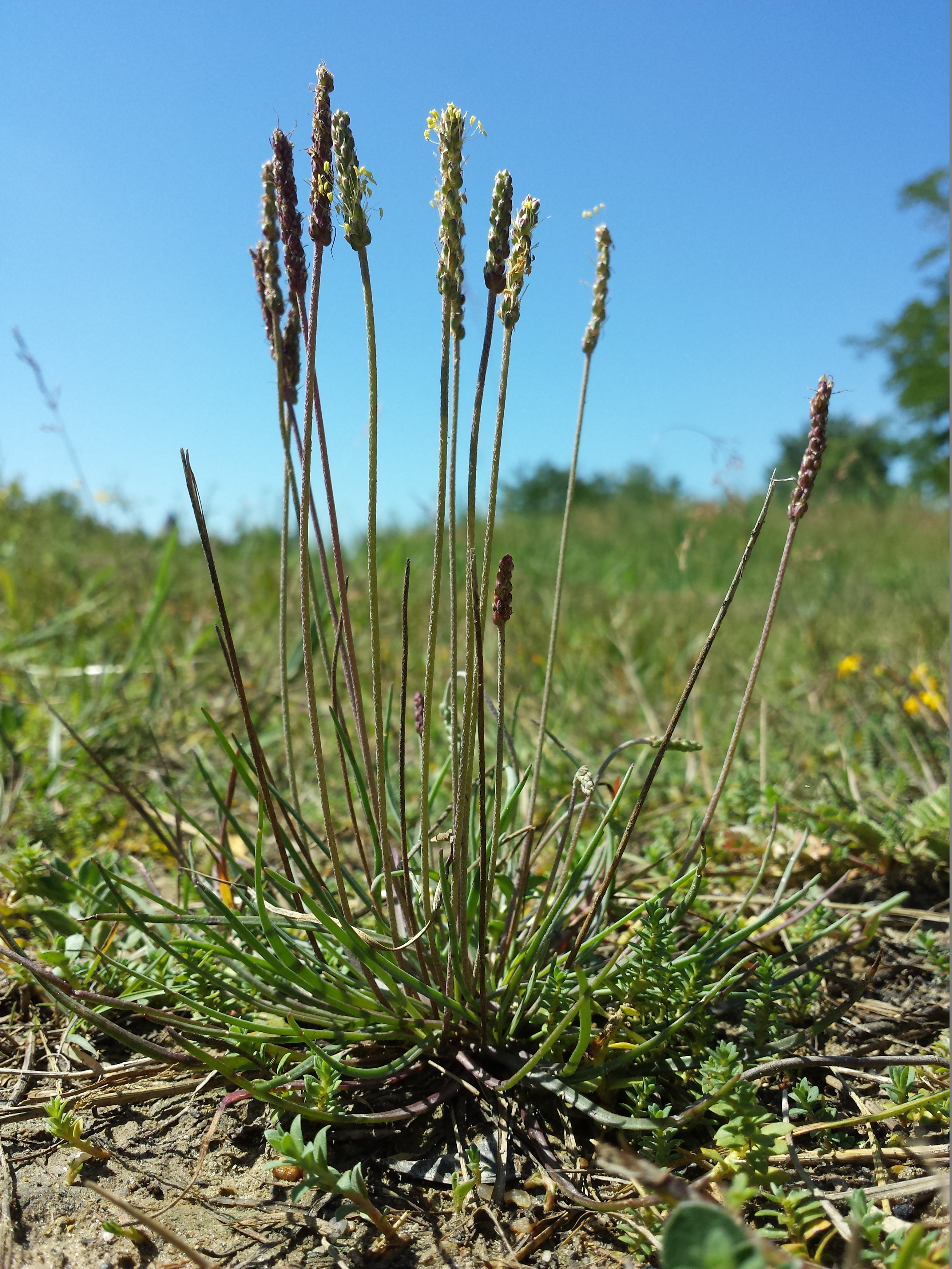 Habitus Taxonym: Plantago maritima ss Fischer et al. EfÖLS 2008 ISBN 978-3-85474-187-9 Location: nature reserve Zwingendorfer Glaubersalzböden - Hintausacker, district Mistelbach, Lower Austria - ca. 185 m a.s.l. Habitat: salt meadow / path